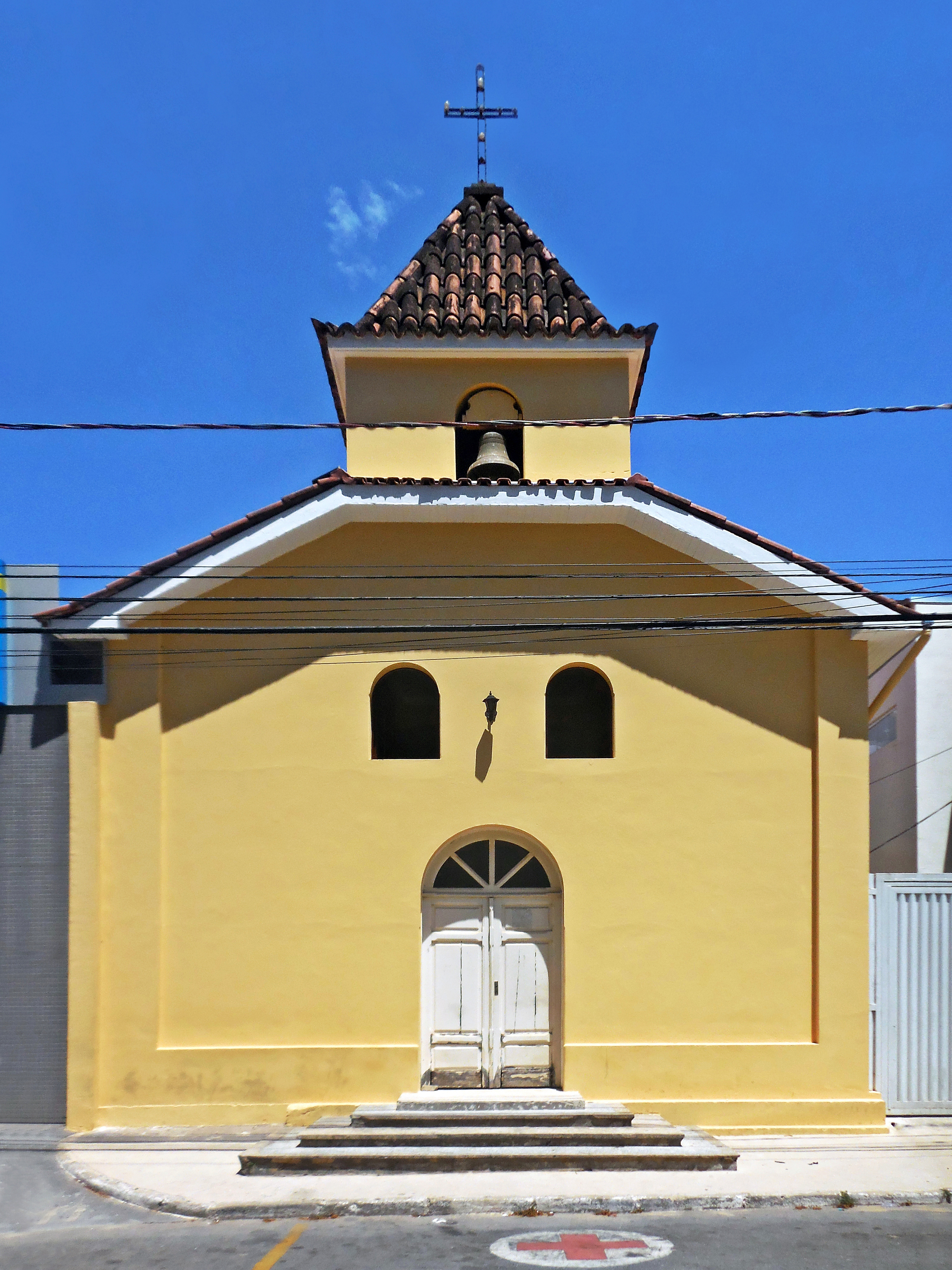 Facade of the Our Lady Help of Christians chapel of the Doutor José Maria Morais Hospital, in Coronel Fabriciano, Minas Gerais, Brazil.